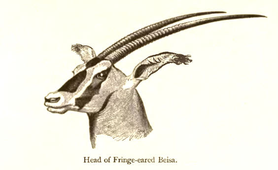 Head of Oryx beisa callotis